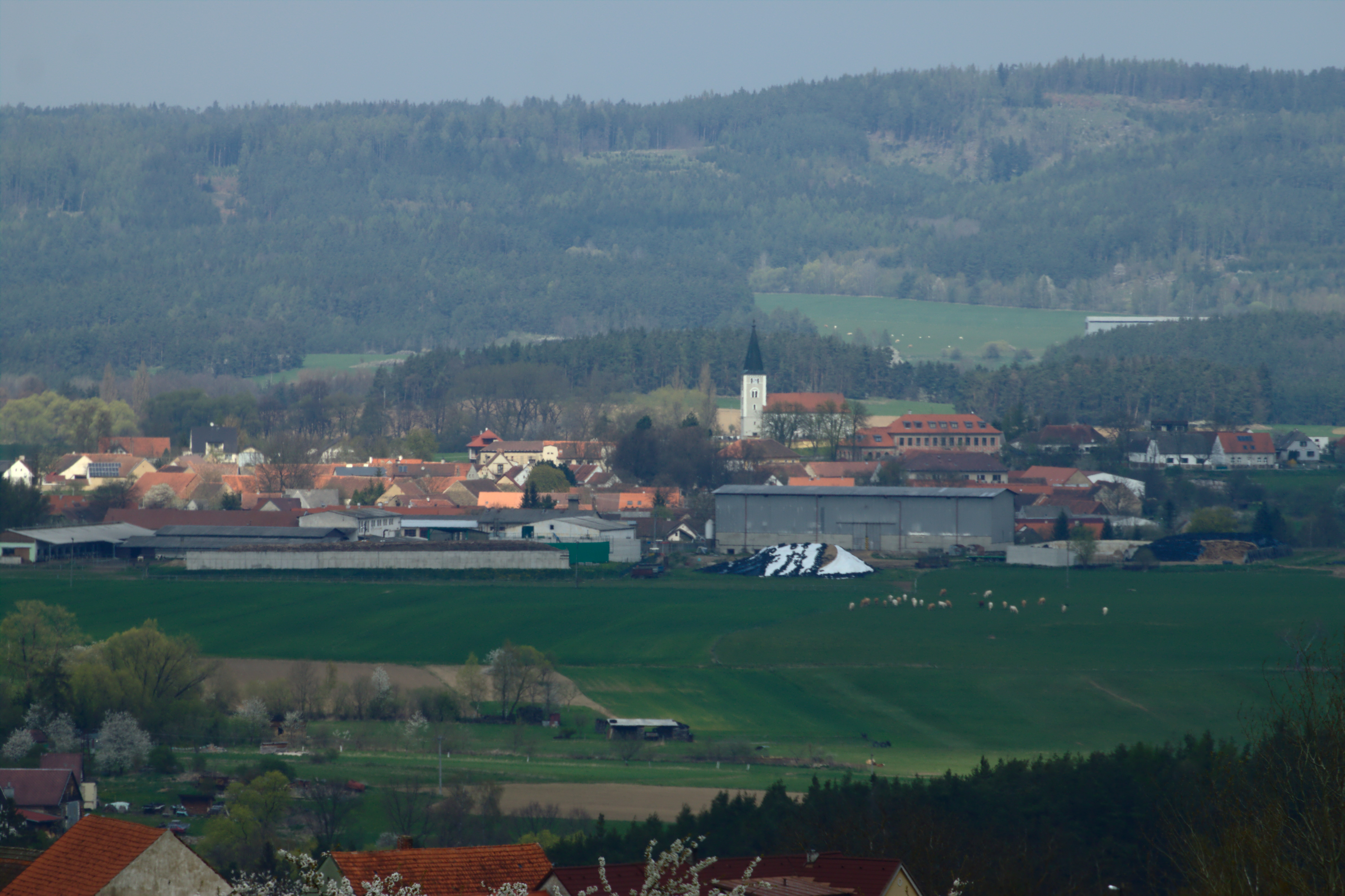 View of the village of Hradešice from aroudn Vlkonice, Plzeň Region, CZ